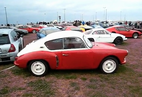 Alpine A106